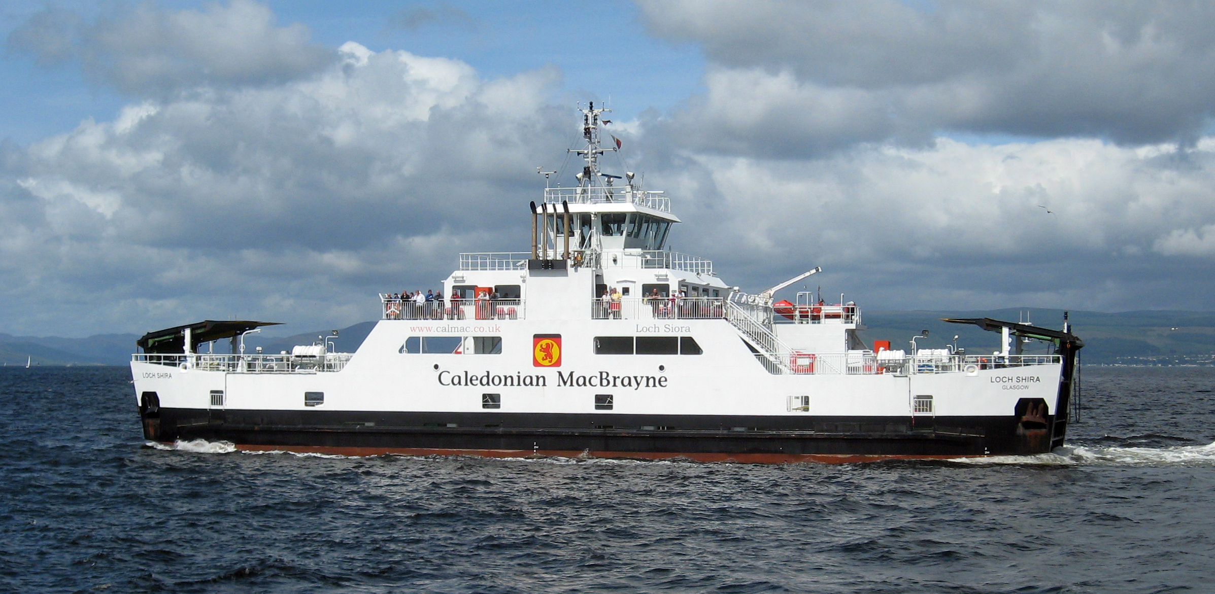 MV Loch Shira leaving Largs